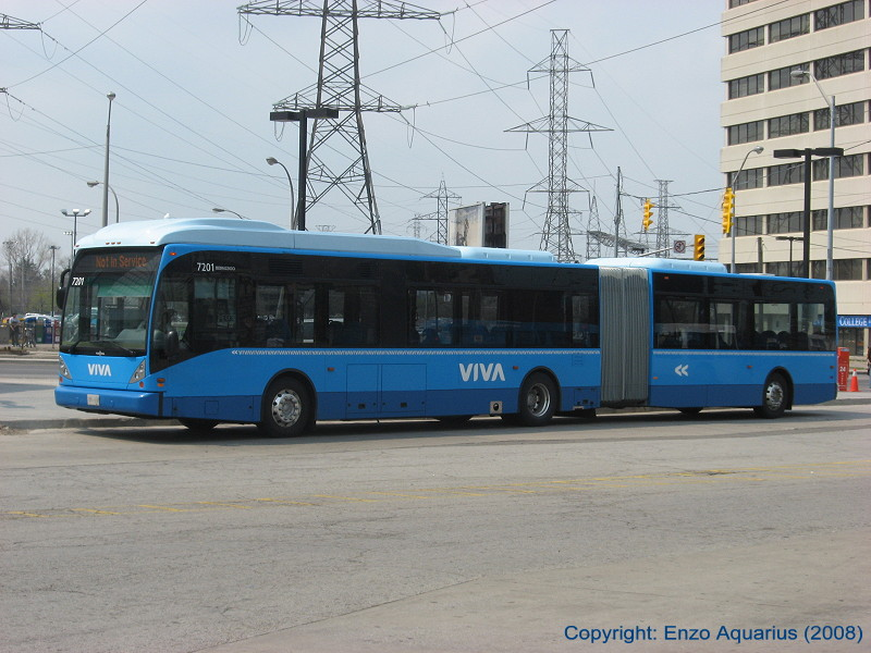 Viva transit Van Hool AG300 bus 7201 at Finch GO Terminal.